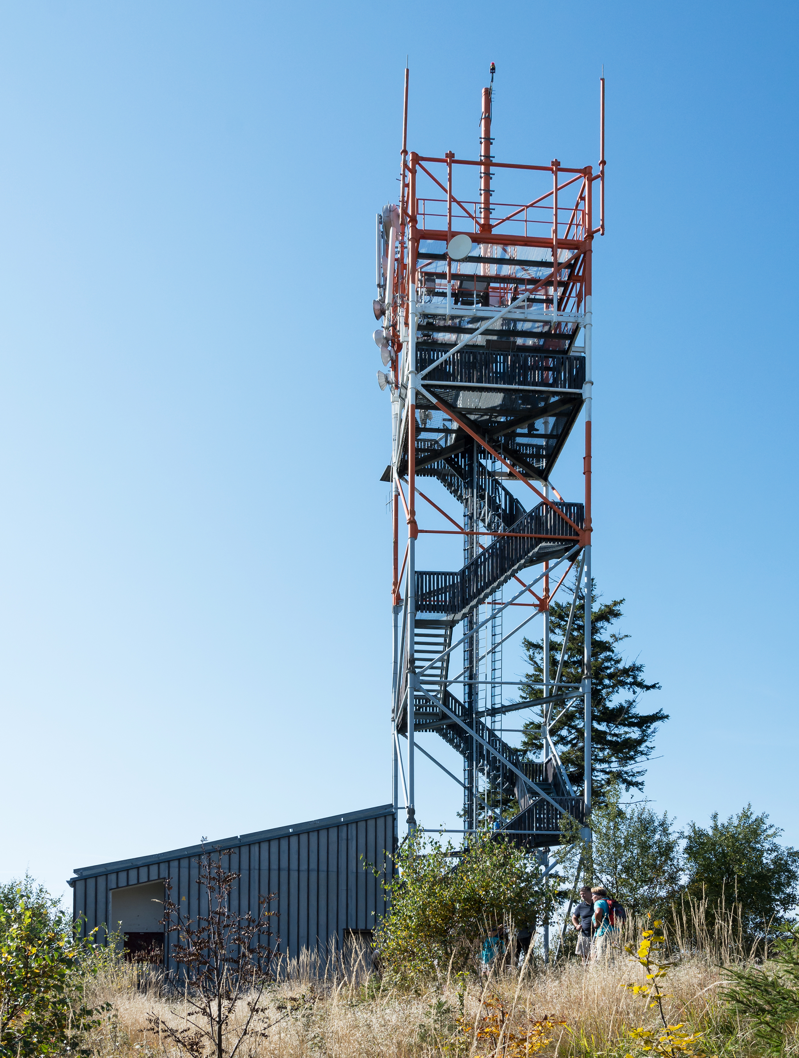 Lookout tower on Ruprechtický Špičák